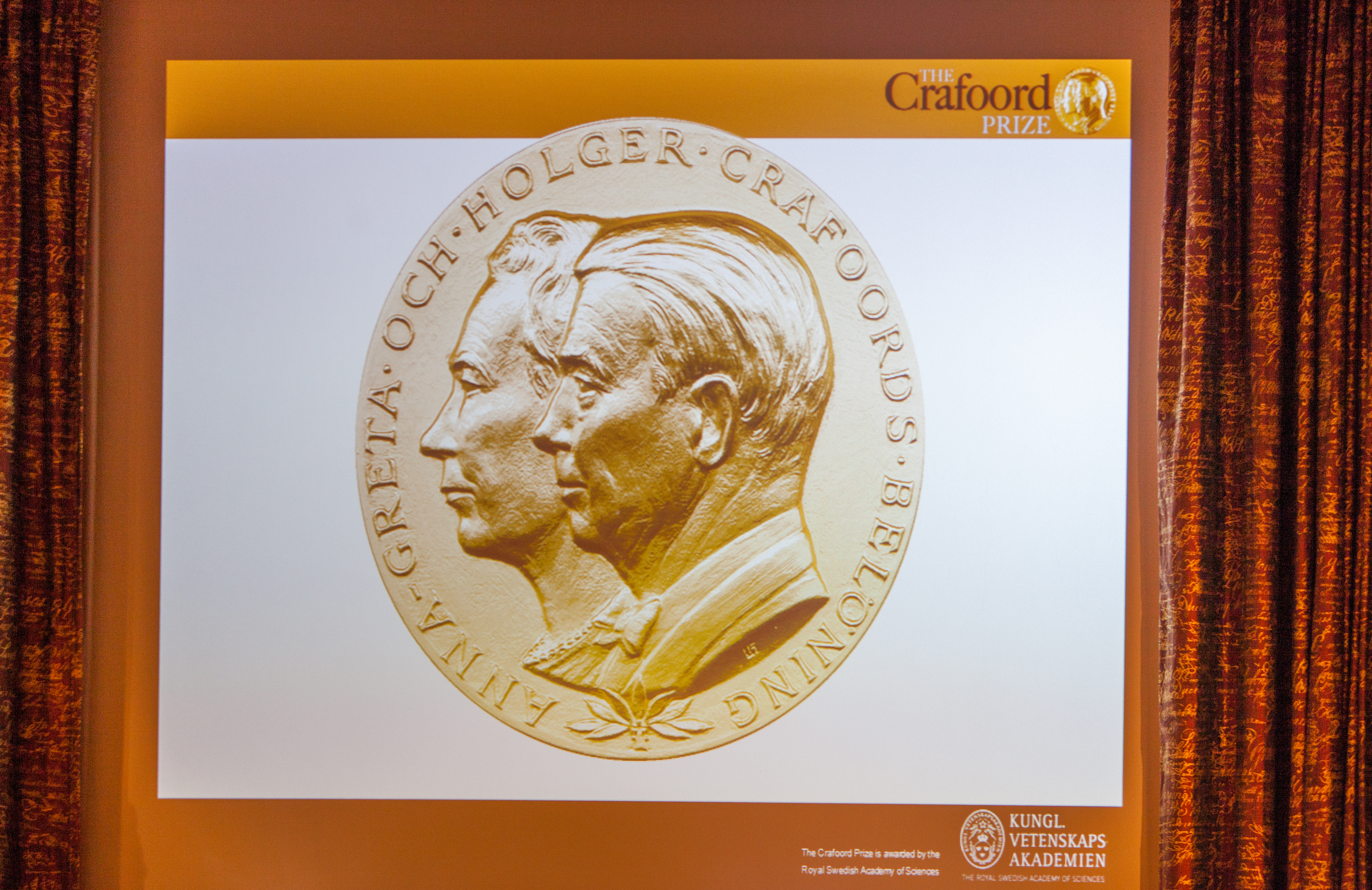 The Crafoord Prize 2013